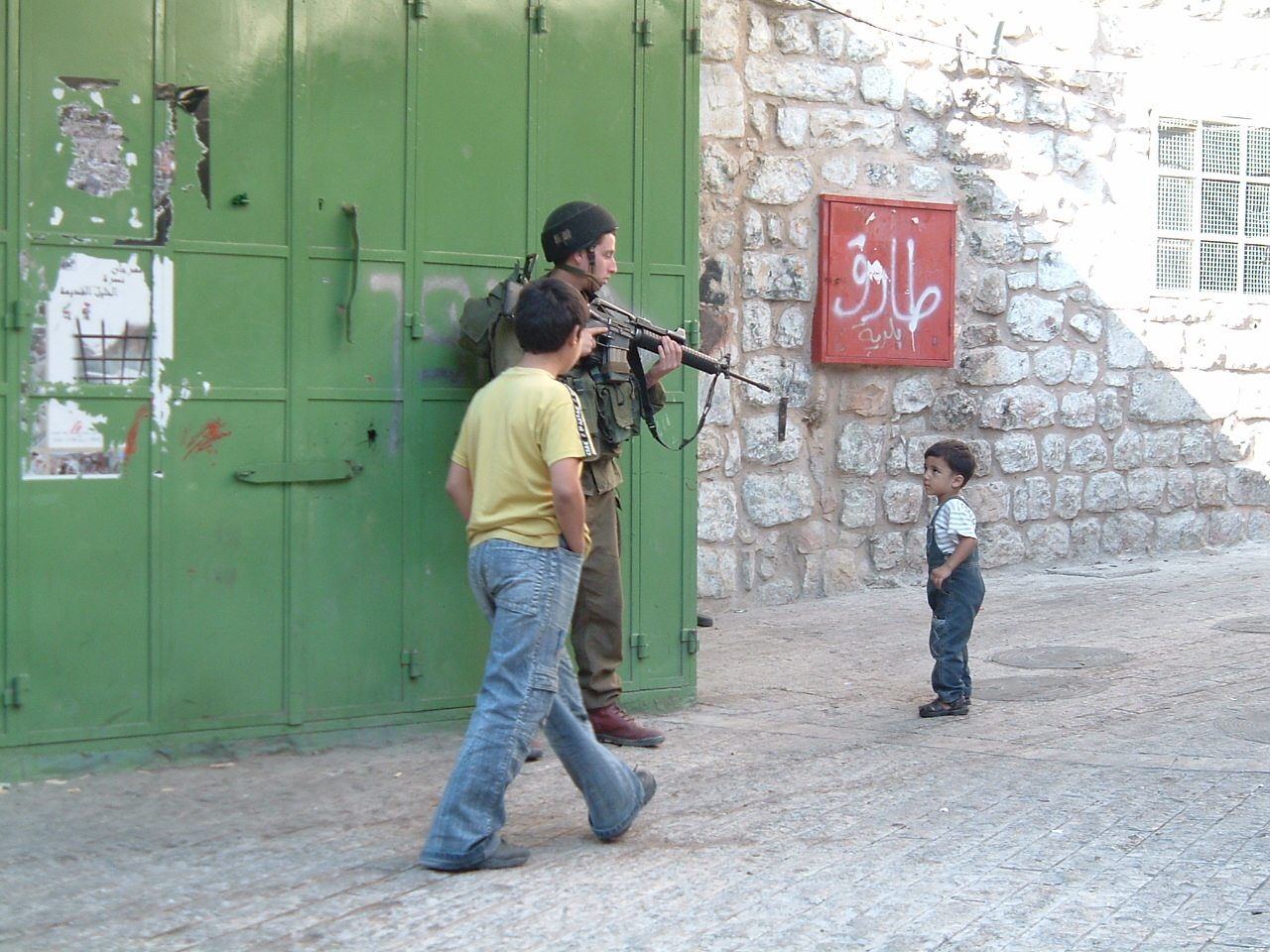 Soldier patrolling in Hebron old city